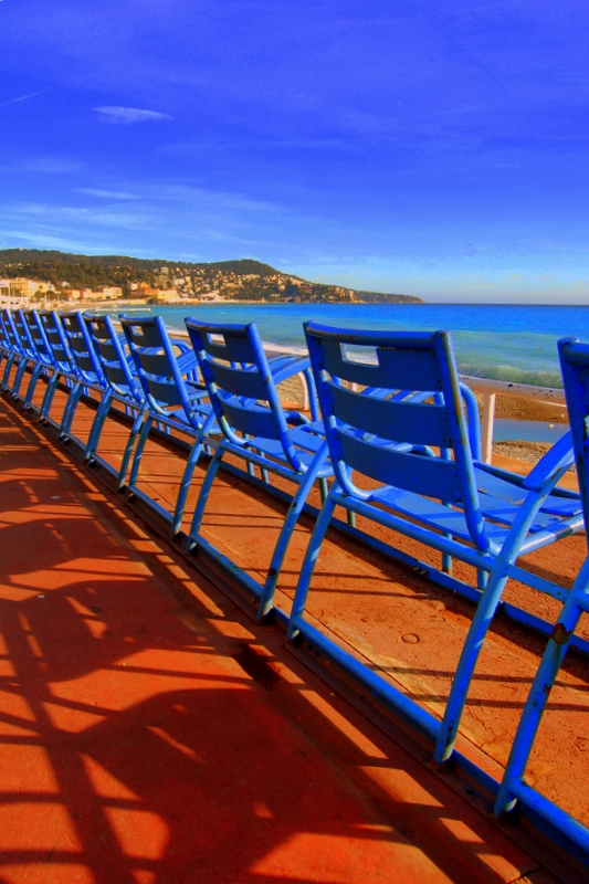 Les chaises bleus de la promenade. These chairs tend to disapear and be stolen by people who put them in their lounge It's very trendy to have a set of these Now all the chairs are sealed togrther usefull if you have a great family but quite tricky to transport Nikon D50 18-55 mm + hoya polarizer filter